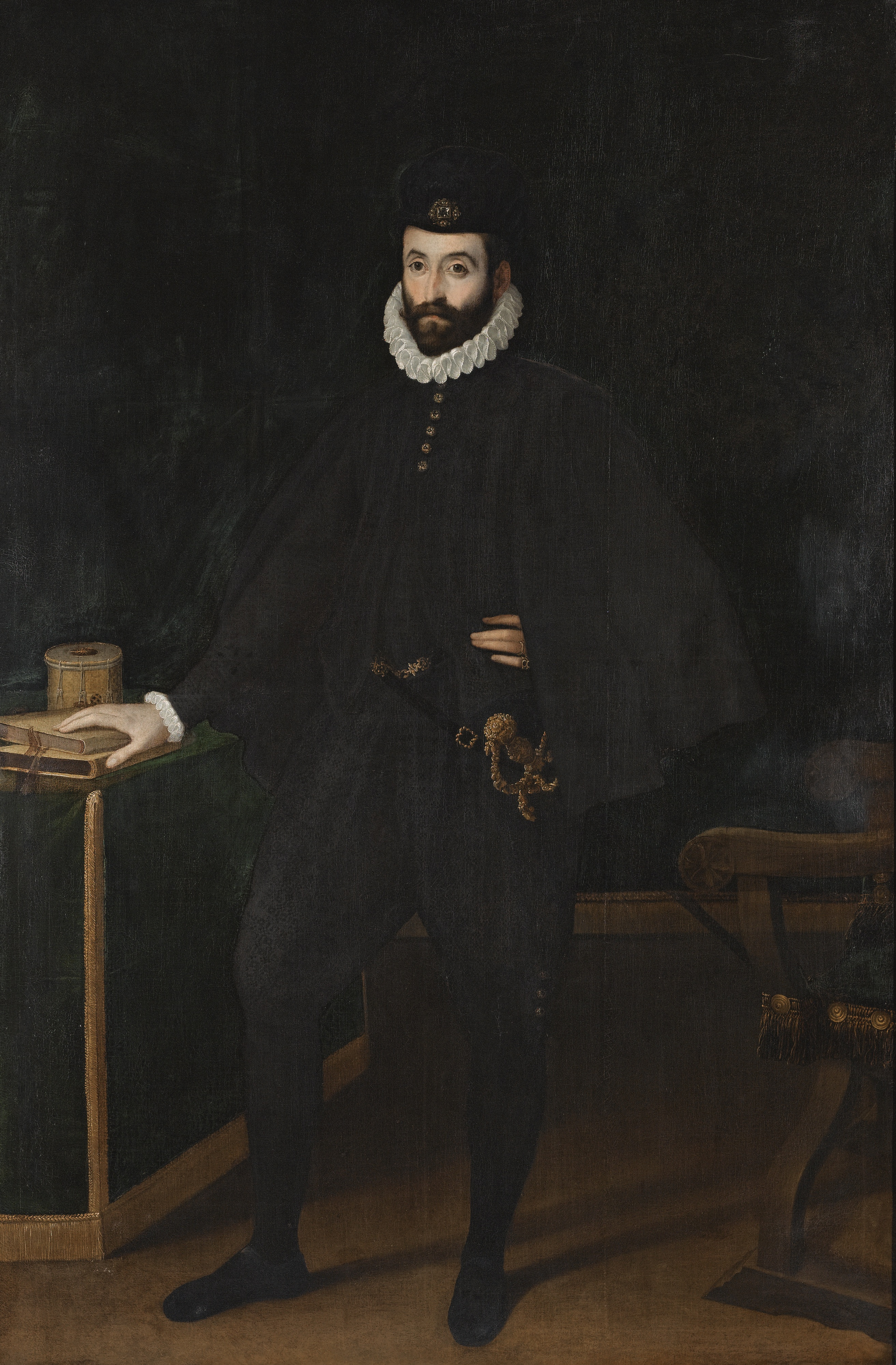 Francesco I became duke in 1574 and in 1579 Anguissola and her then-husband paid their respects, thus dating this portrait